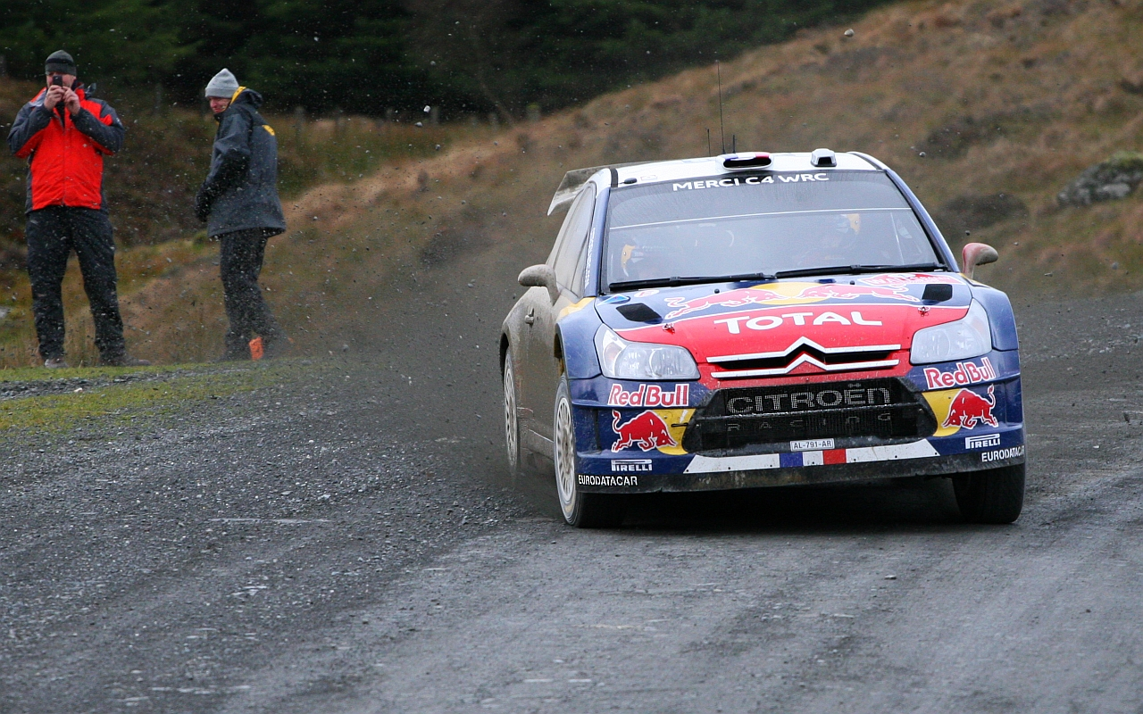 Sébastien Loeb - WRC Wales Rally GB 2010 - Myherin Stage